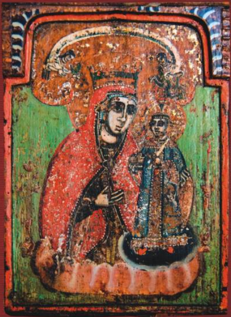 Saint Mary Icon from Presentation of Mary Church in Serres.